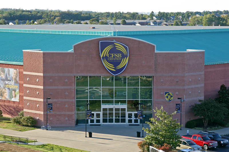 Entrance B to the CFSB Center at Murray State University in Murray.